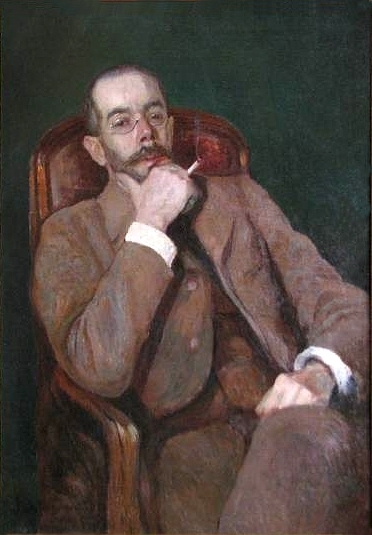 The portrait shows Alexander Shervashidze (Chachba) during his study at the Moscow School of Painting, Sculpture and Architecture.